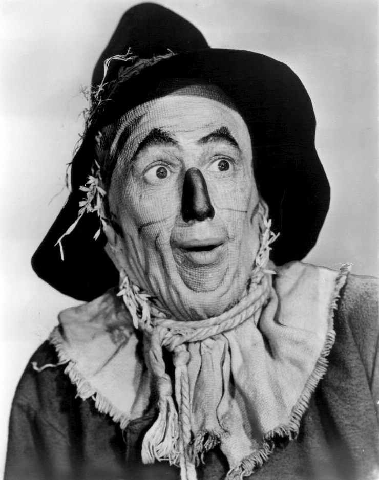 Publicity photo of American entertainer, Ray Bolger promoting his role as the Scarecrow in the 1939 feature film, The Wizard of Oz.